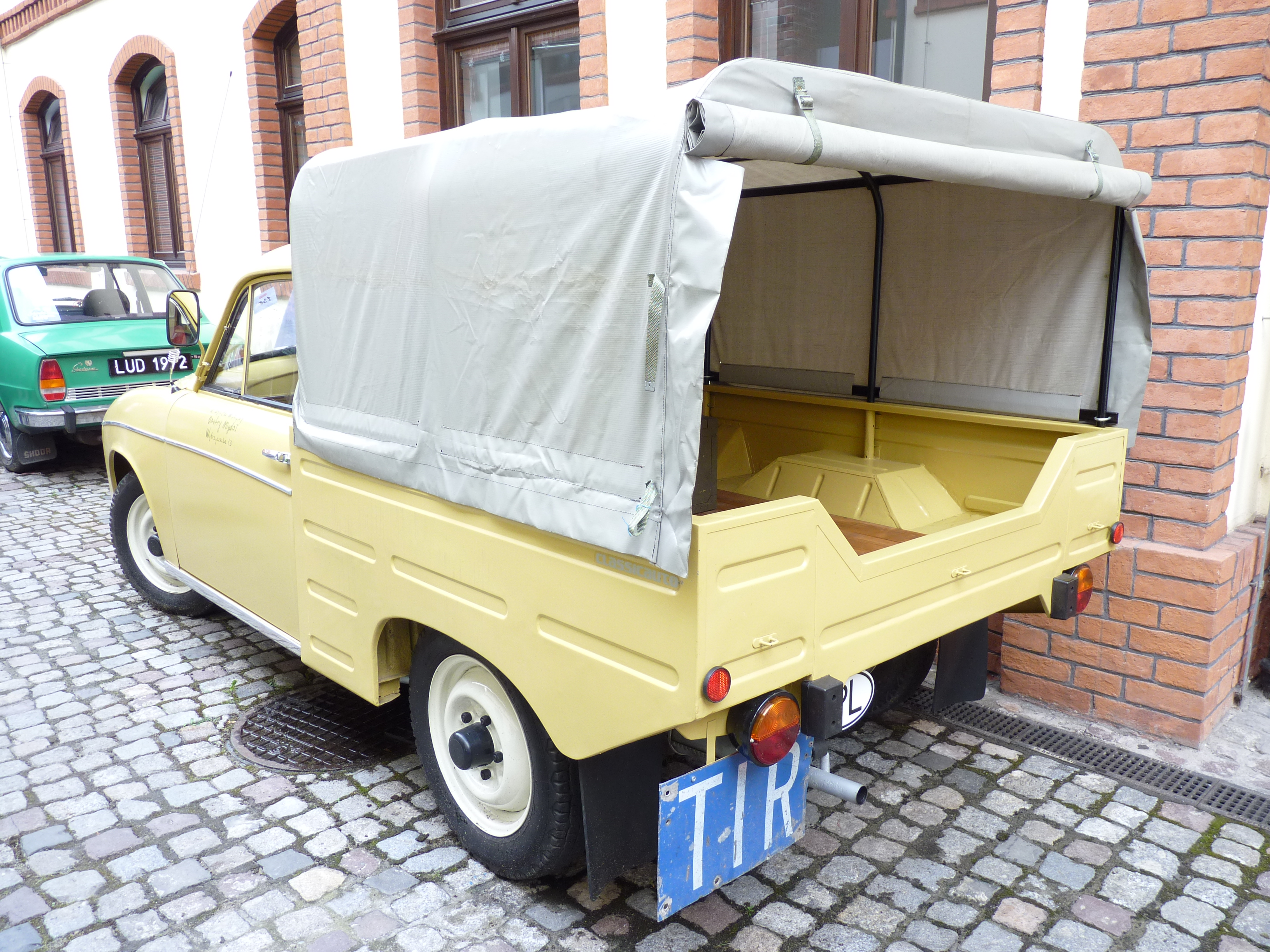 Classic Moto Show 2015 in Kraków.